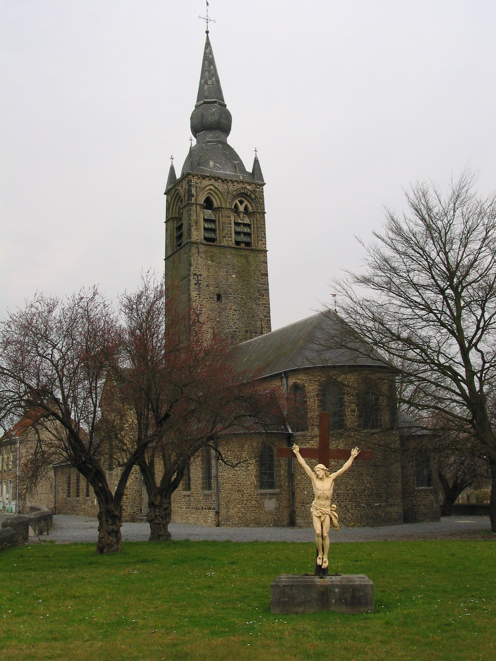 Blaton (Belgium), the All the Saints church (XI/XIIth centuries).